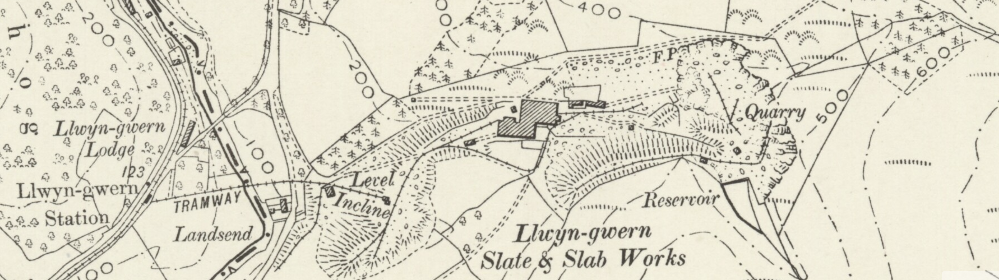 Map of Llwyngwern quarry in 1900, taken from the Merionethshire XLVII.NE Ordnance Survey map. the map shows the branch from the Corris Railway to the quarry, the open pit on the east side of the site, the main mill, and the waste tip to the south-west of the mill.